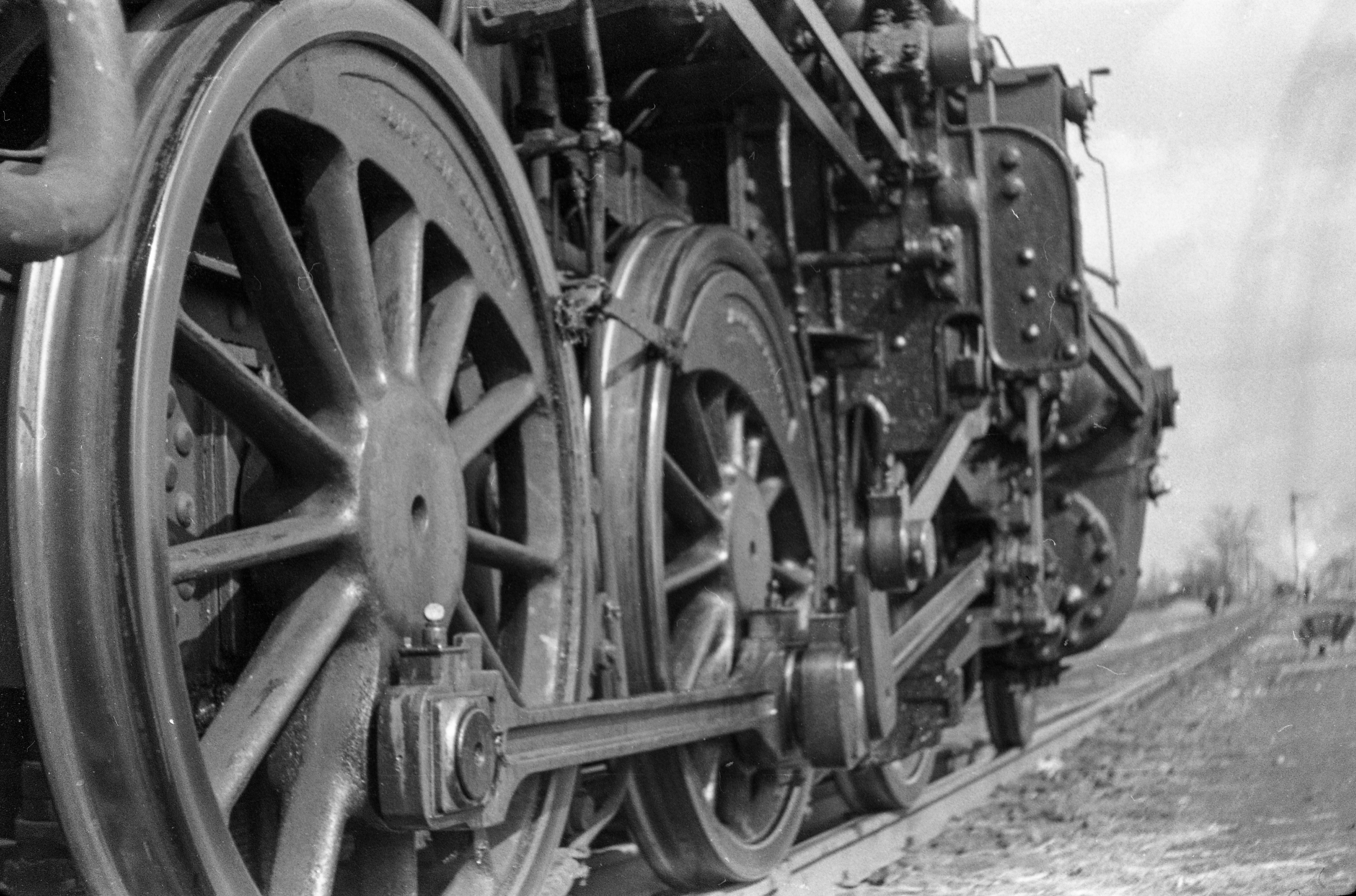 Tags: railway, steam locomotive